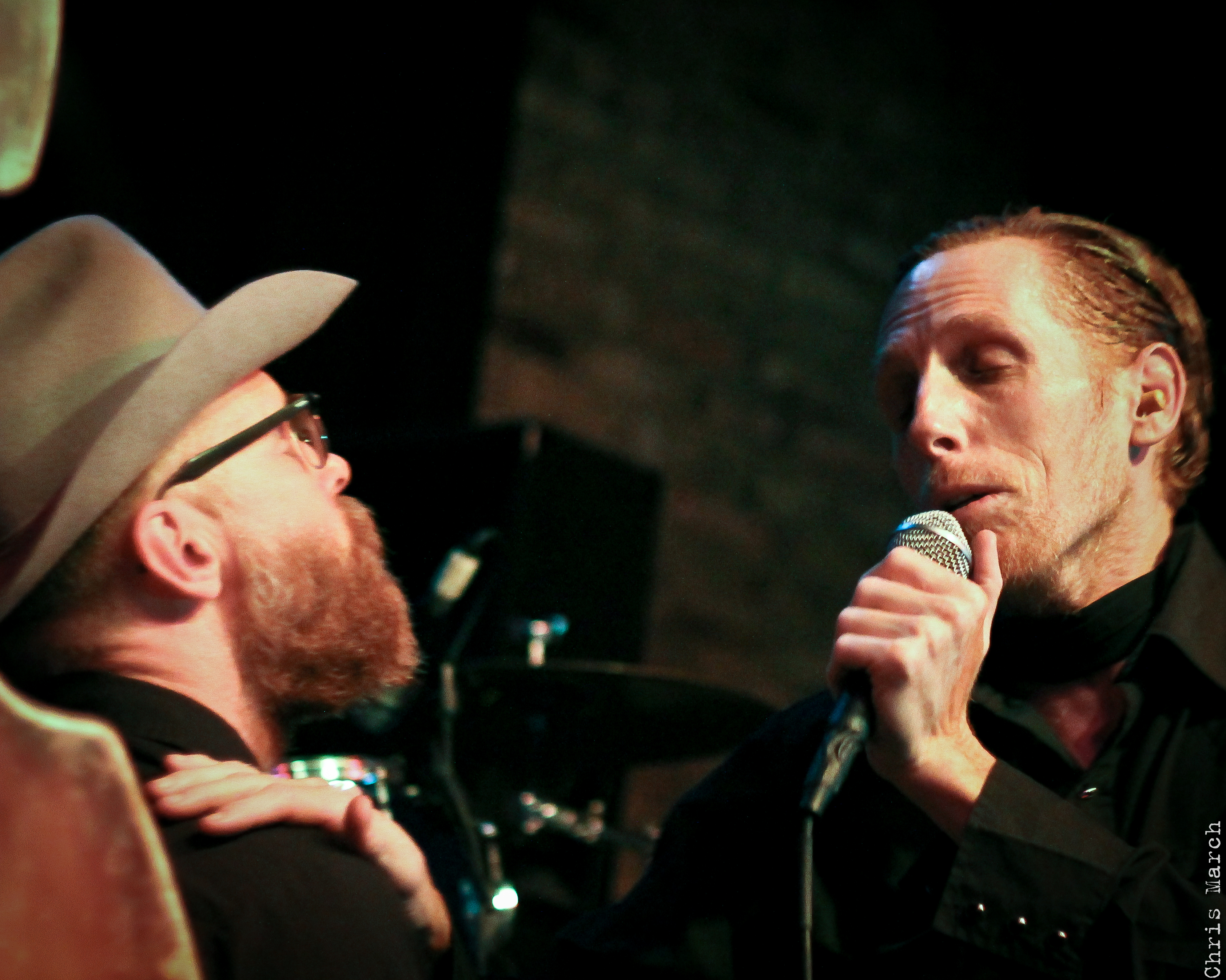 Slim Cessna's Auto Club at Great Scott Nov 7 2011